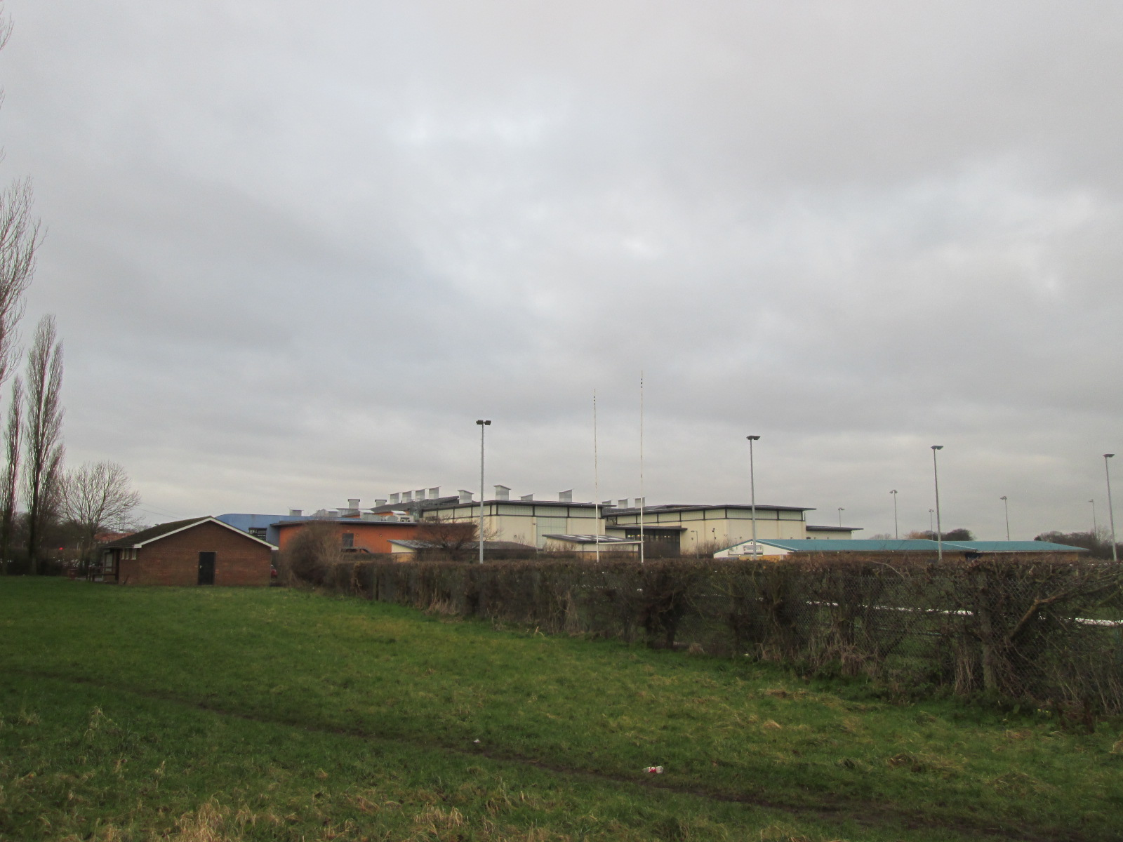 Big school (sorry, academy) at Thorne